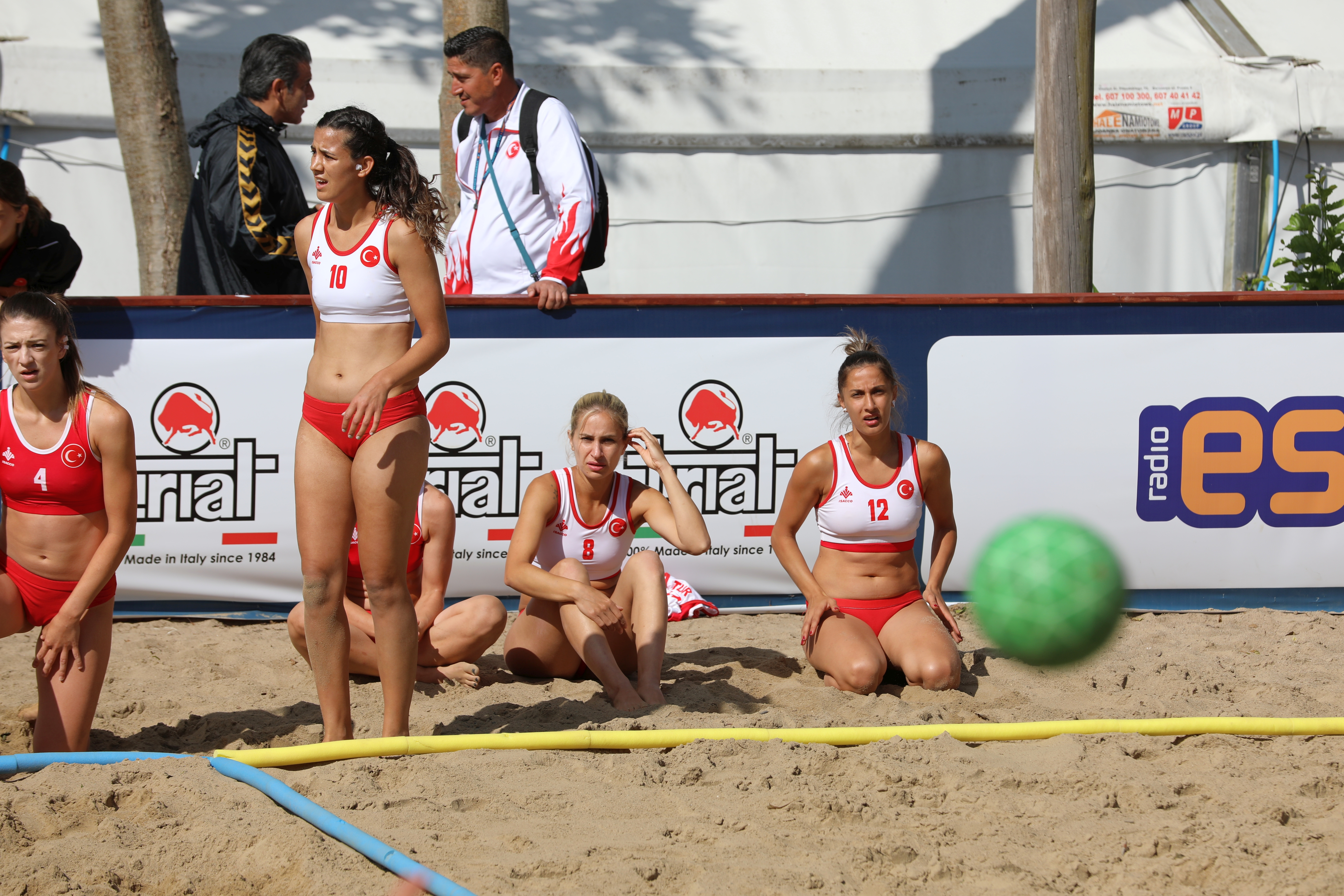 Beach handball Euro; Day 2: 3 July 2019 – Women Preliminary Round Group A – Turkey-Norway 0:2 (17:22, 12:20)